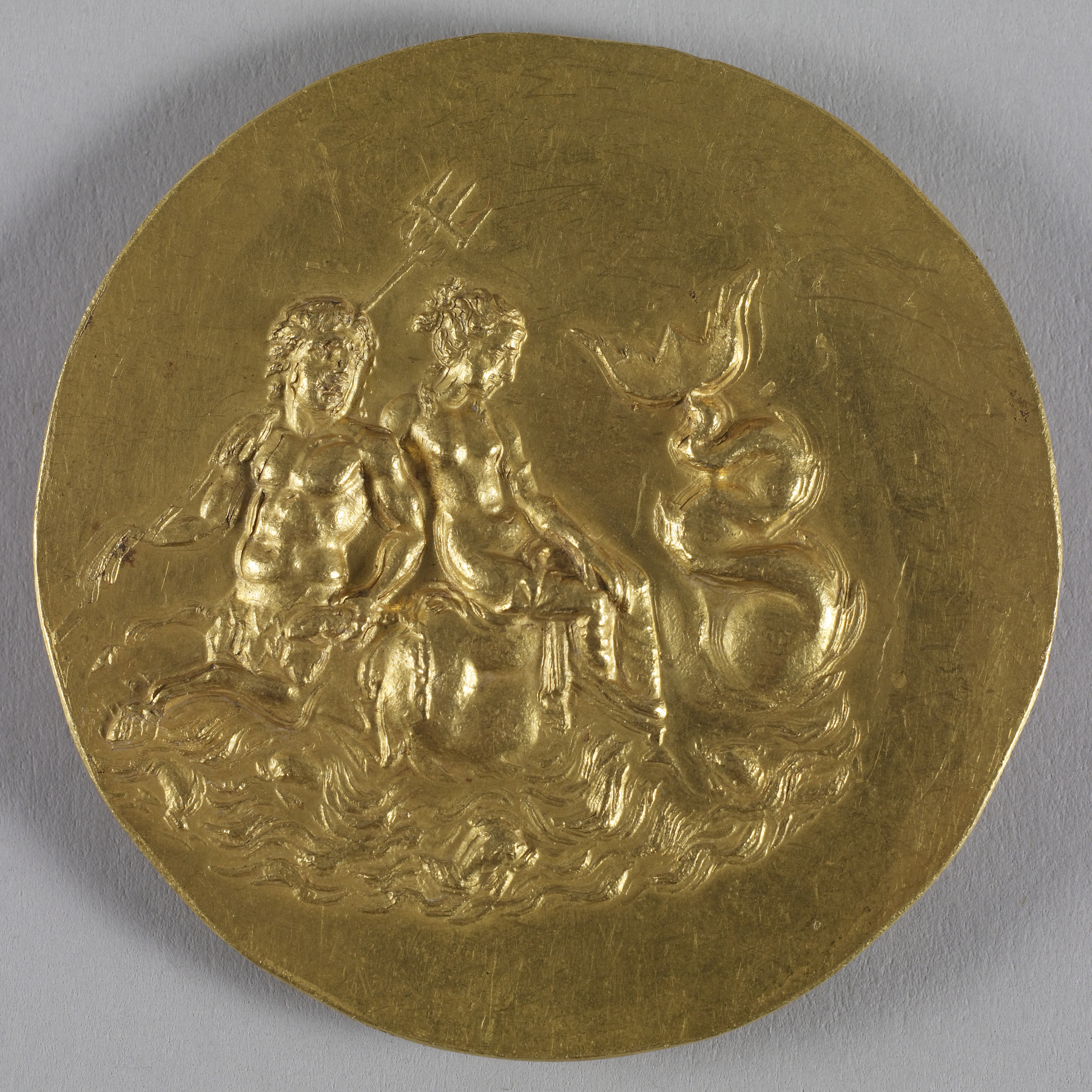 Together with 59.1 and 59.3, this piece is part of a series of large gold medallions that was commissioned to honor Emperor Caracalla, representing him as the descendant of Alexander the Great. These medallions, found at Aboukir in Upper Egypt, demonstrate the artistry and technical prowess achieved by an imperial mint, perhaps that of Ephesus or Perinthus (both cities in western Asia Minor). Olympias, mother of Alexander the Great, is depicted here in profile. The back shows a "nereid" (sea nymph), perhaps Thetis, the mother of Achilles, riding on a hippocamp, a mythical sea-creature. Thus, the medallion forms part of a double comparison: Caracalla is compared to Alexander, the conqueror of the East; Alexander is compared to Achilles, a hero of the Trojan War.